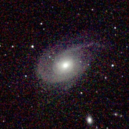 Galaxy NGC 772